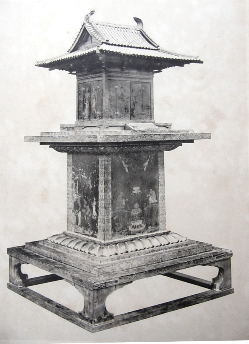 Tamamushi Shrine, Horyu-ji, Nara prefecture. Asuka Period, Height 233cm. Wood (Hinoki cypress and Camphorwood). Decorated with lacquer and oil painting on wood, gilt bronze plaques, and the iridescent wings of jewel beetle(TAMAMUSHI). 7th century (attributed)